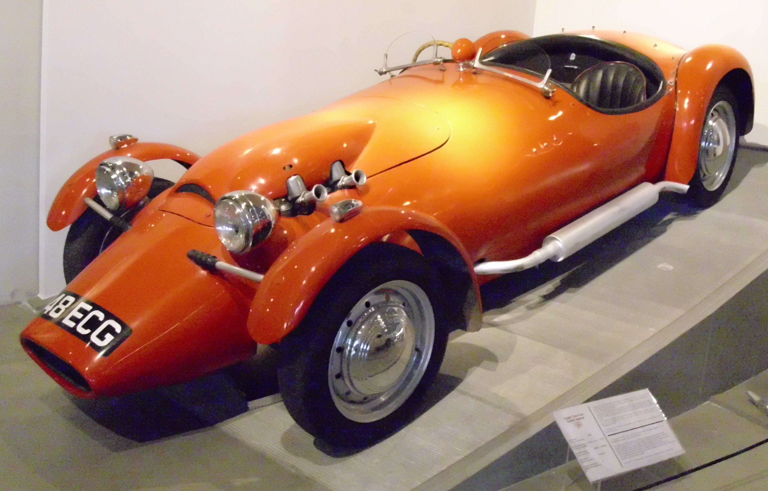 Super Accessories Super Two 1962